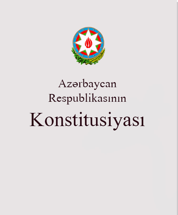 Front cover of the Azerbaijani Constitution